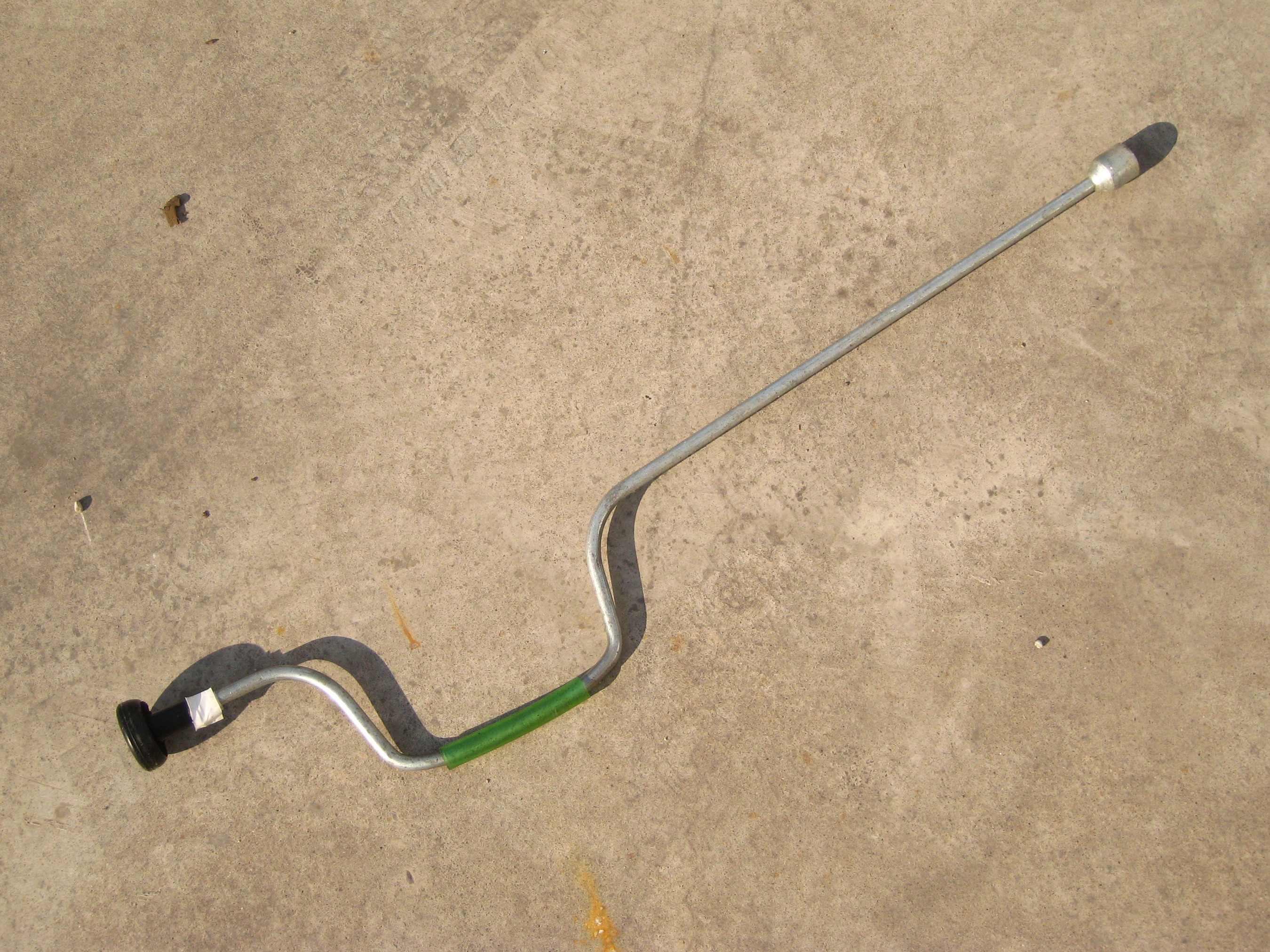 Brace for roulotte